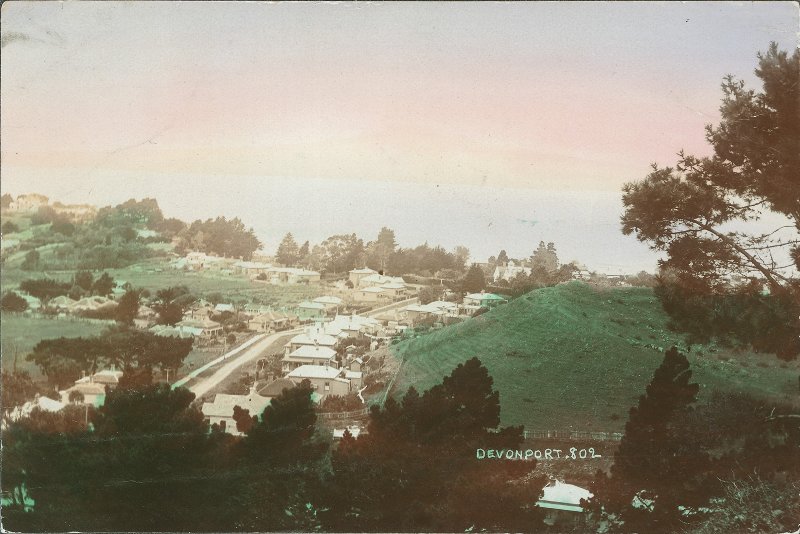 1907 postcard showing Mount Cambria. Publisher W.A.P.